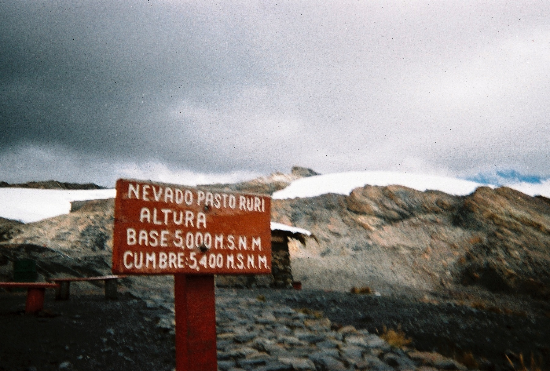 Pastoruri glacier, Peru